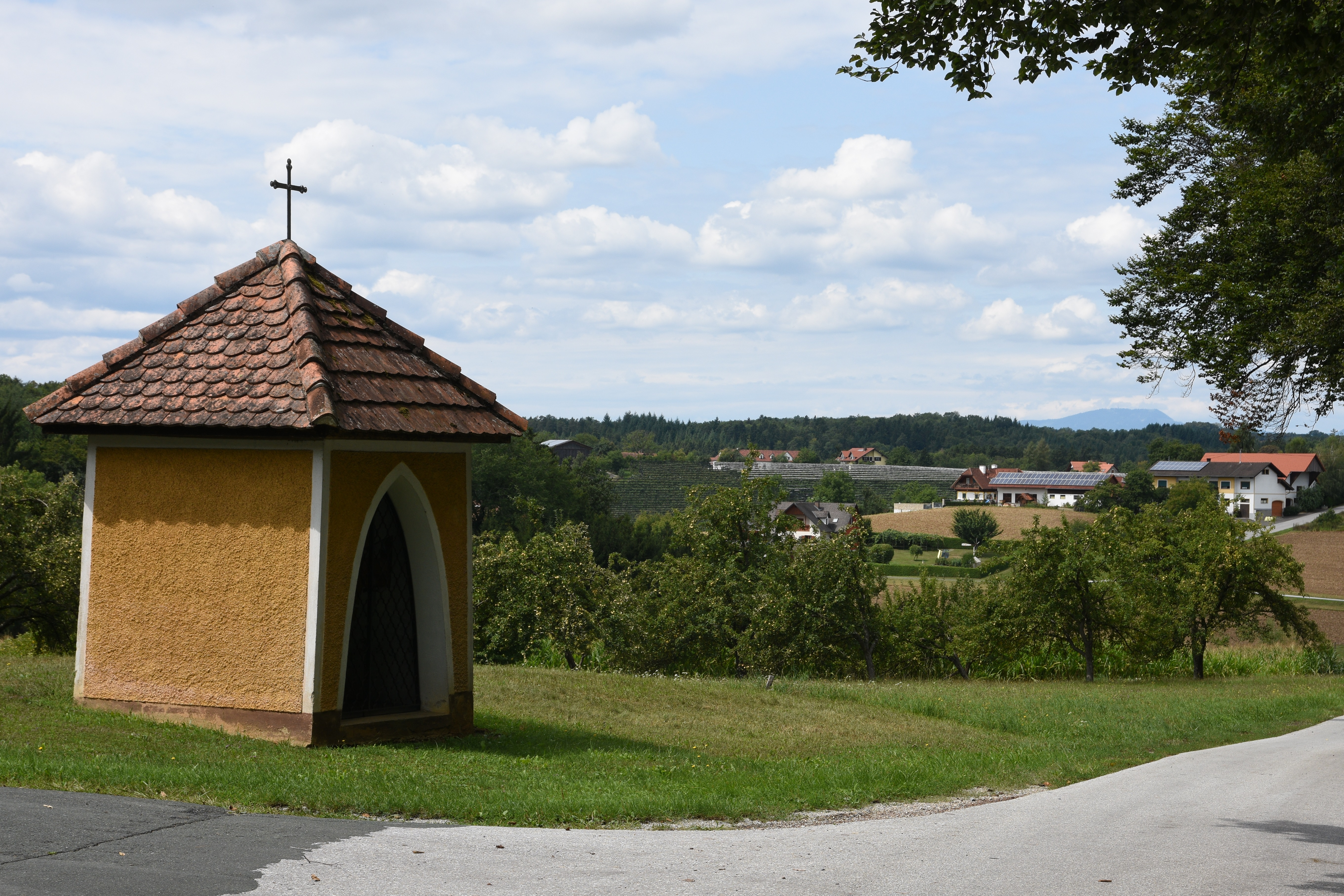 Chapel Buchberg bei Ilz